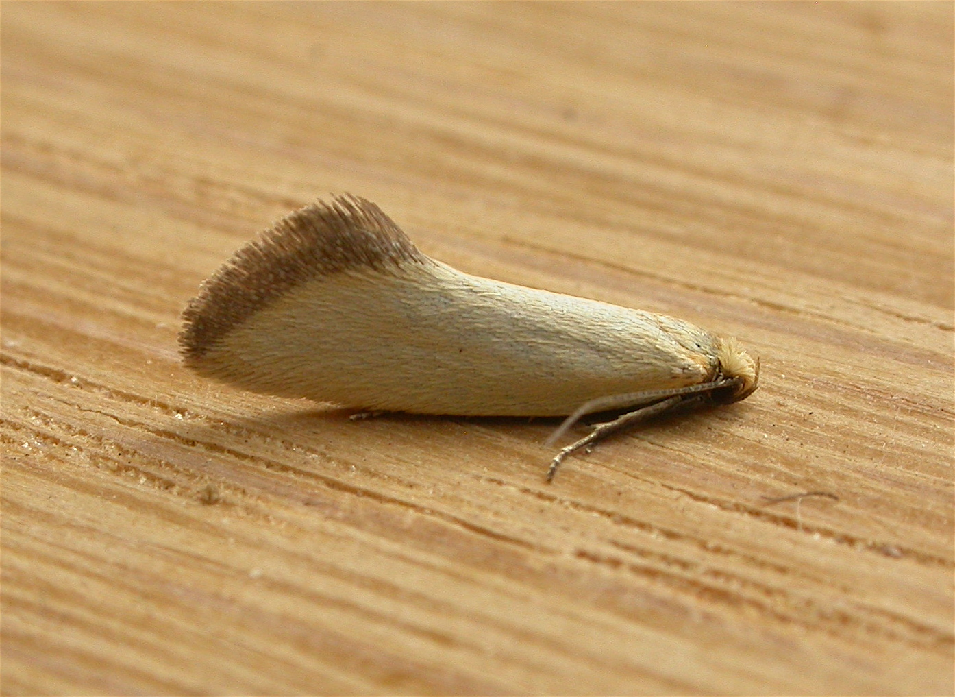 Undescribed Microbela sp., to MV light, Aranda, ACT, 31 October/1 November 2008